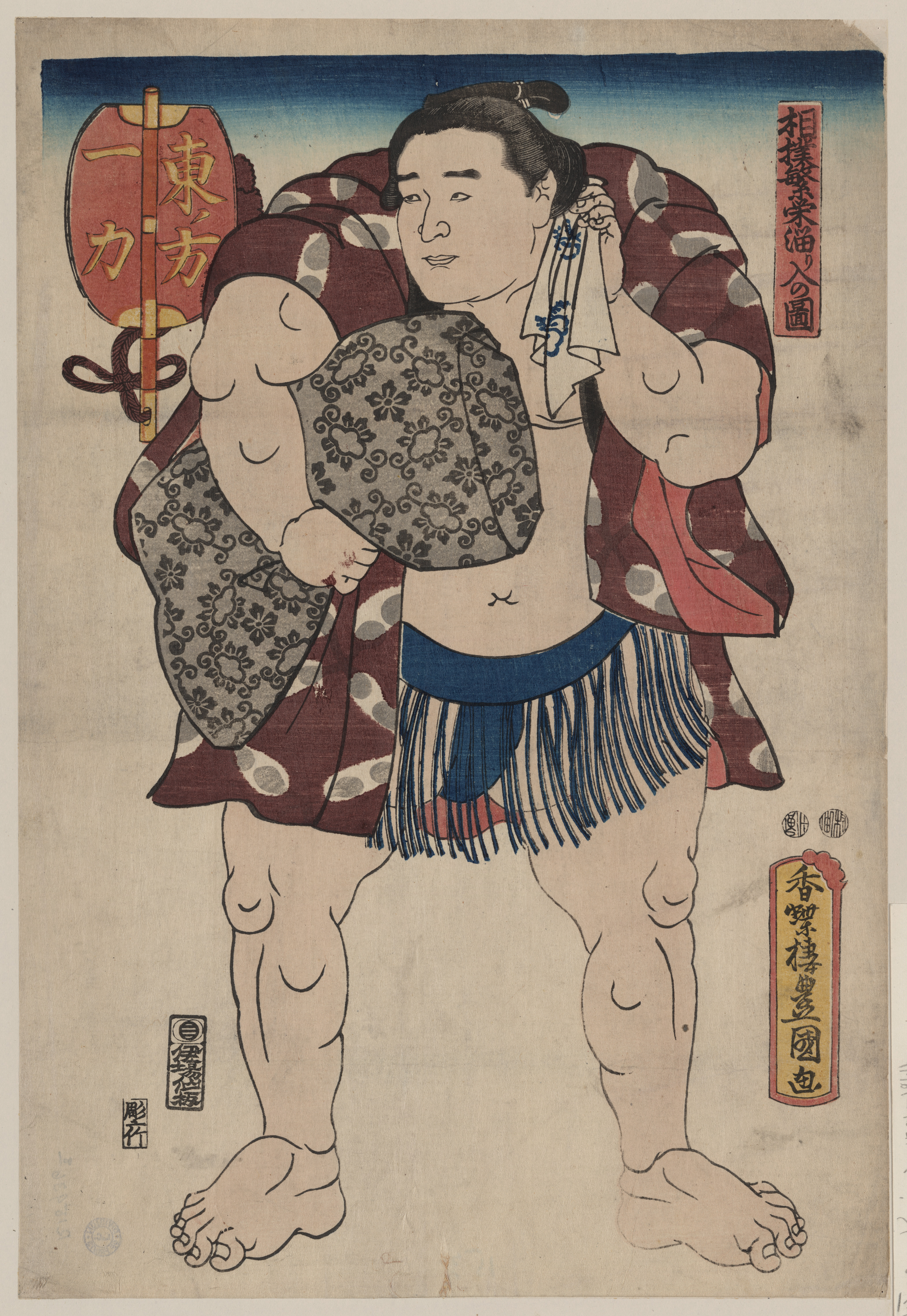 Ichiriki Chogoro (1814-1859)